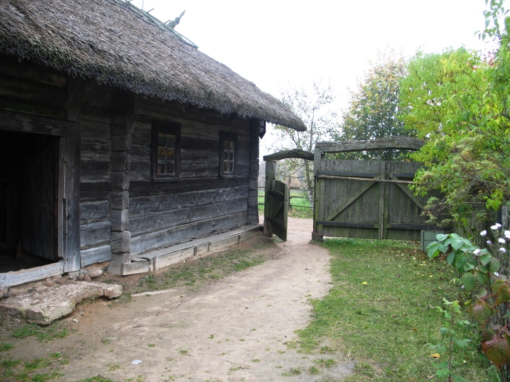 State museum of folk architecture and life, Belarus